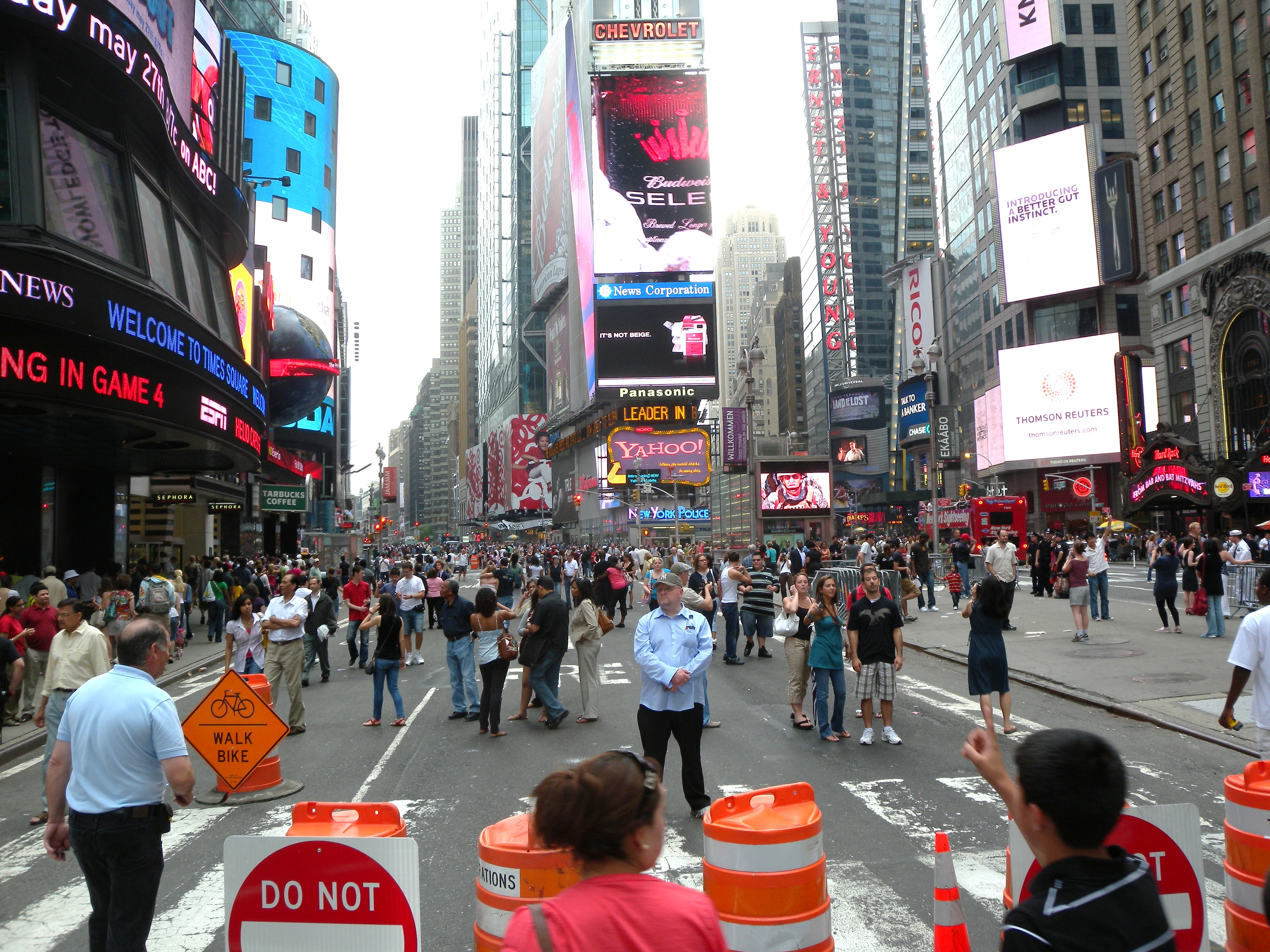 Looking south along pedestrianized (merely closed to cars, not yet renovated) Broadway through Times Square on a sunny afternoon.